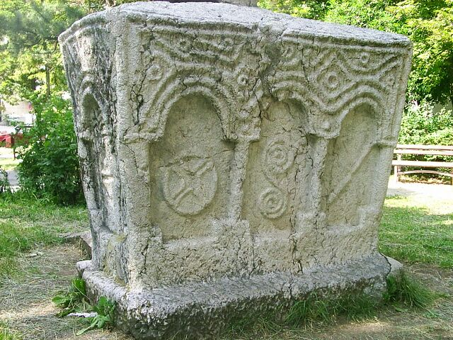 Stećak of Paja Pivljanin ner Vallachian church in Cetinje, Montenegro